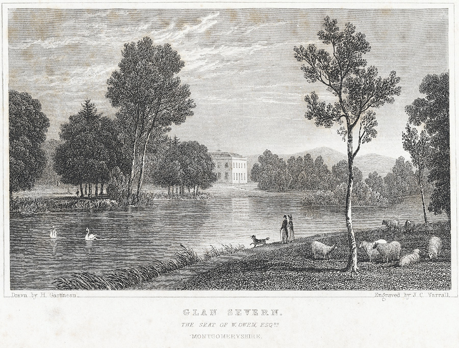 A view of Glansevern Mansion, showing two people near the River Severn, along with swans and sheep.